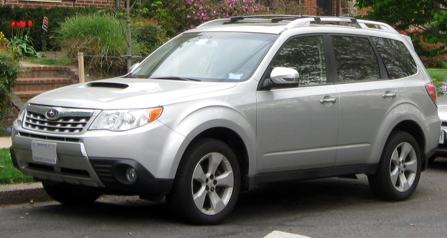 2011-2012 Subaru Forester photographed in Washington, D.C., USA.